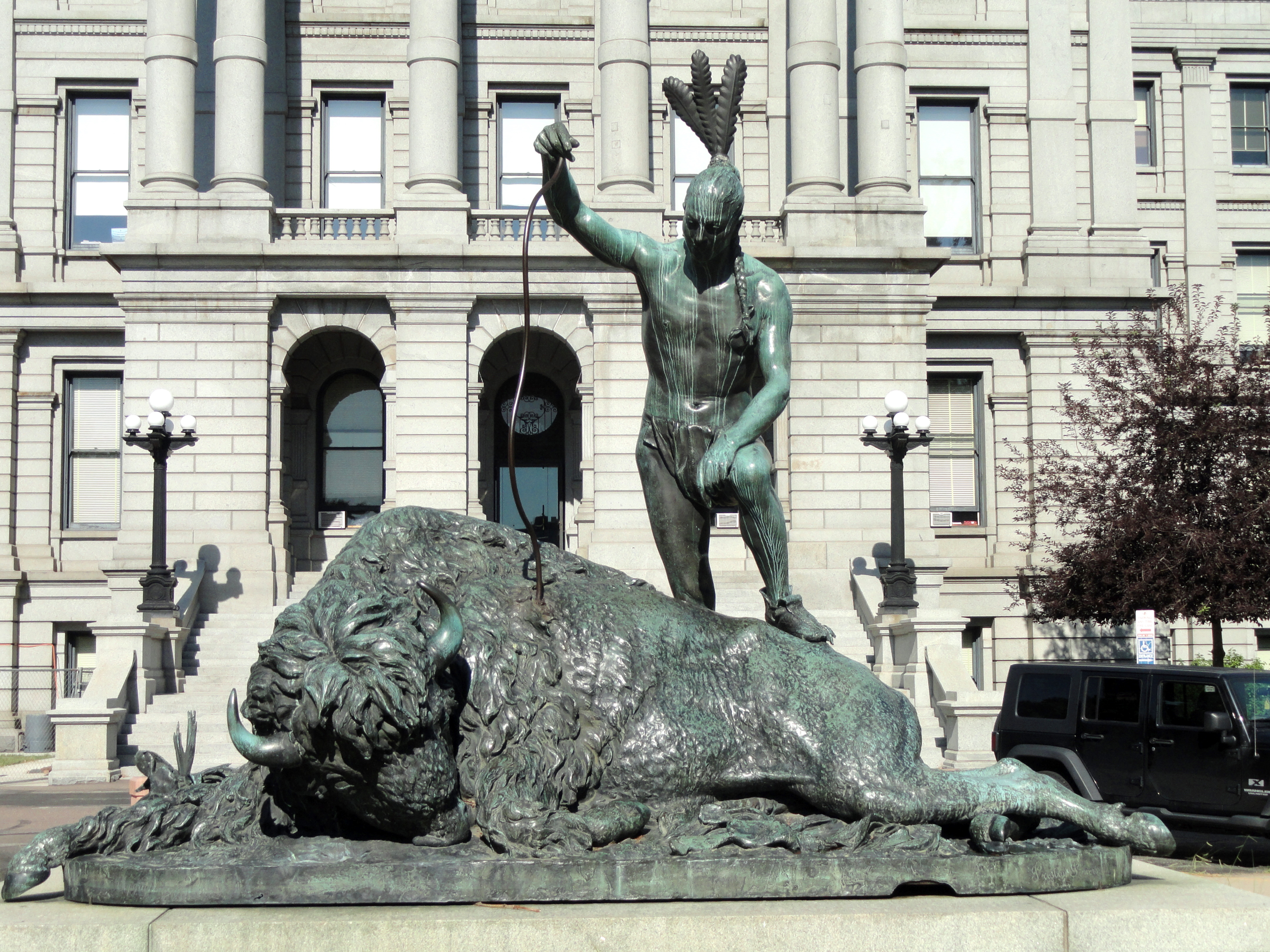 The Closing Era by Preston Powers (1842 - 1904), outside the Colorado State Capitol in Denver, Colorado, USA. Created in 1893 for the Chicago World's Fair. This statue is now in the public domain.